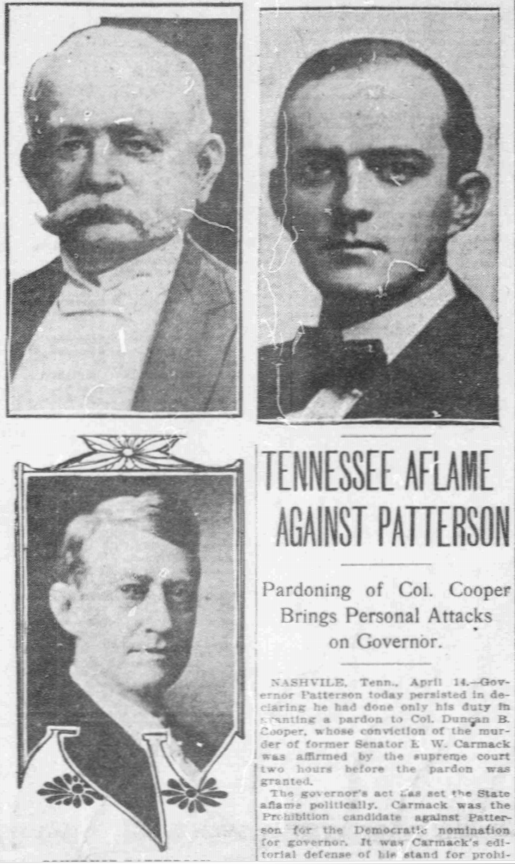 Portion of a Washington Times newspaper article, referring to Tennessee governor Malcolm R. Patterson's pardoning of his political allies, Duncan and Robin Cooper, following their convictions for killing Patterson's rival, Edward Ward Carmack (Top left: Duncan Cooper, Top Right: Robin Cooper, Bottom left: Malcolm Patterson).